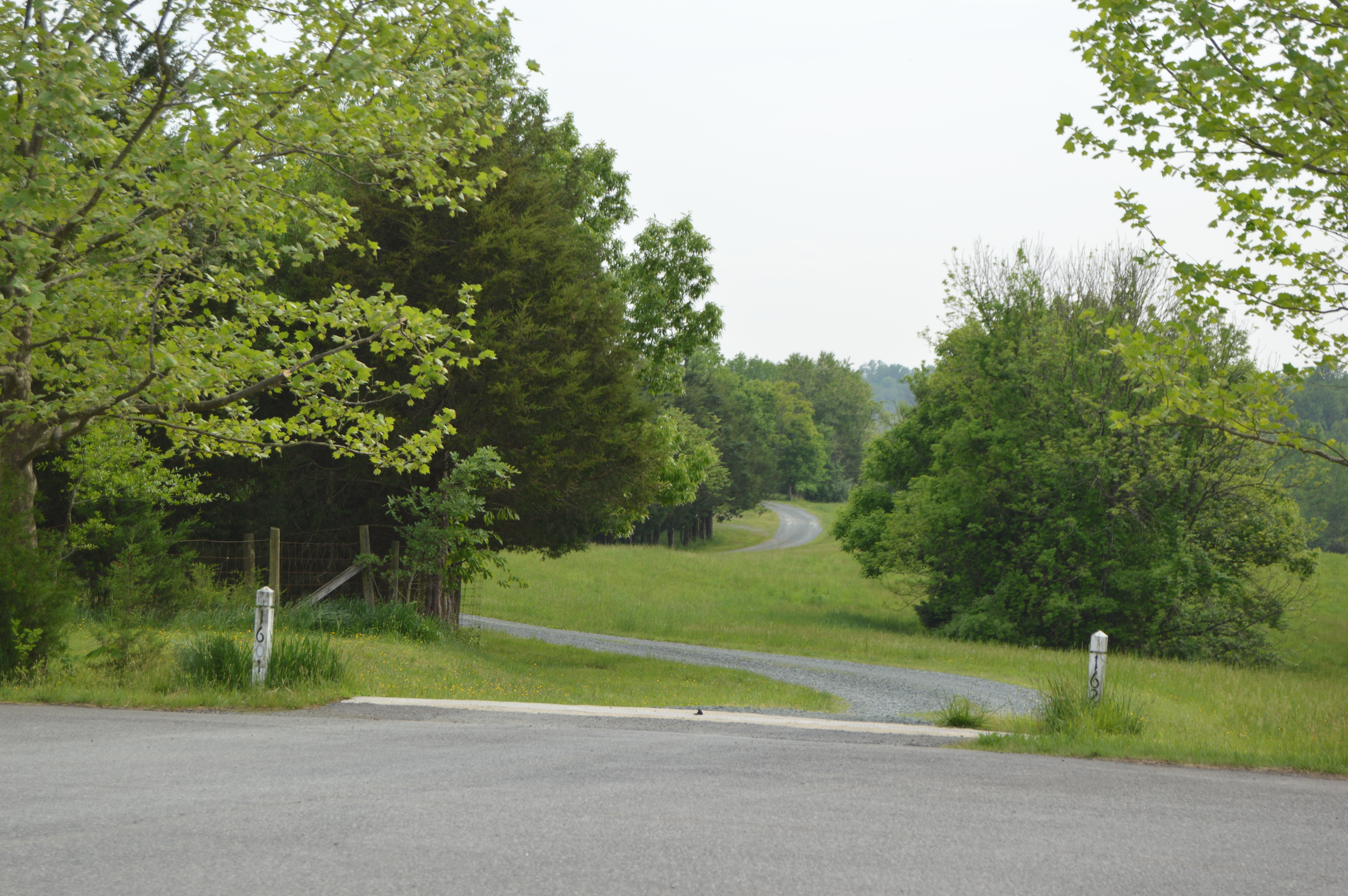 Driveway to the Bentivar estate, located at the end of Bentivar Farm Road northeast of Charlottesville in Albemarle County, Virginia, United States. The estate is listed on the National Register of Historic Places.